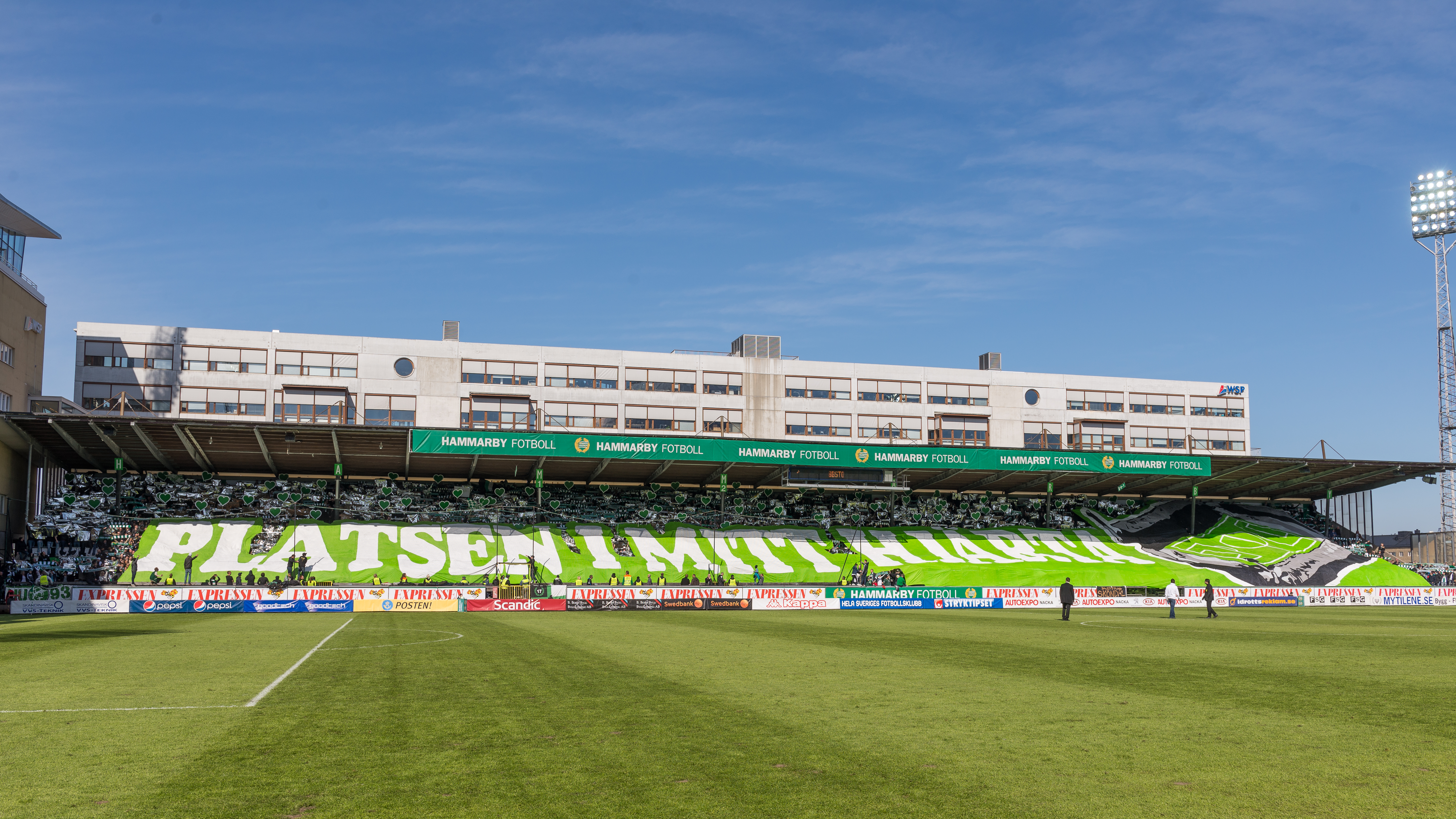 Hammarby IF vs IFK Värnamo, April 14, 2013.